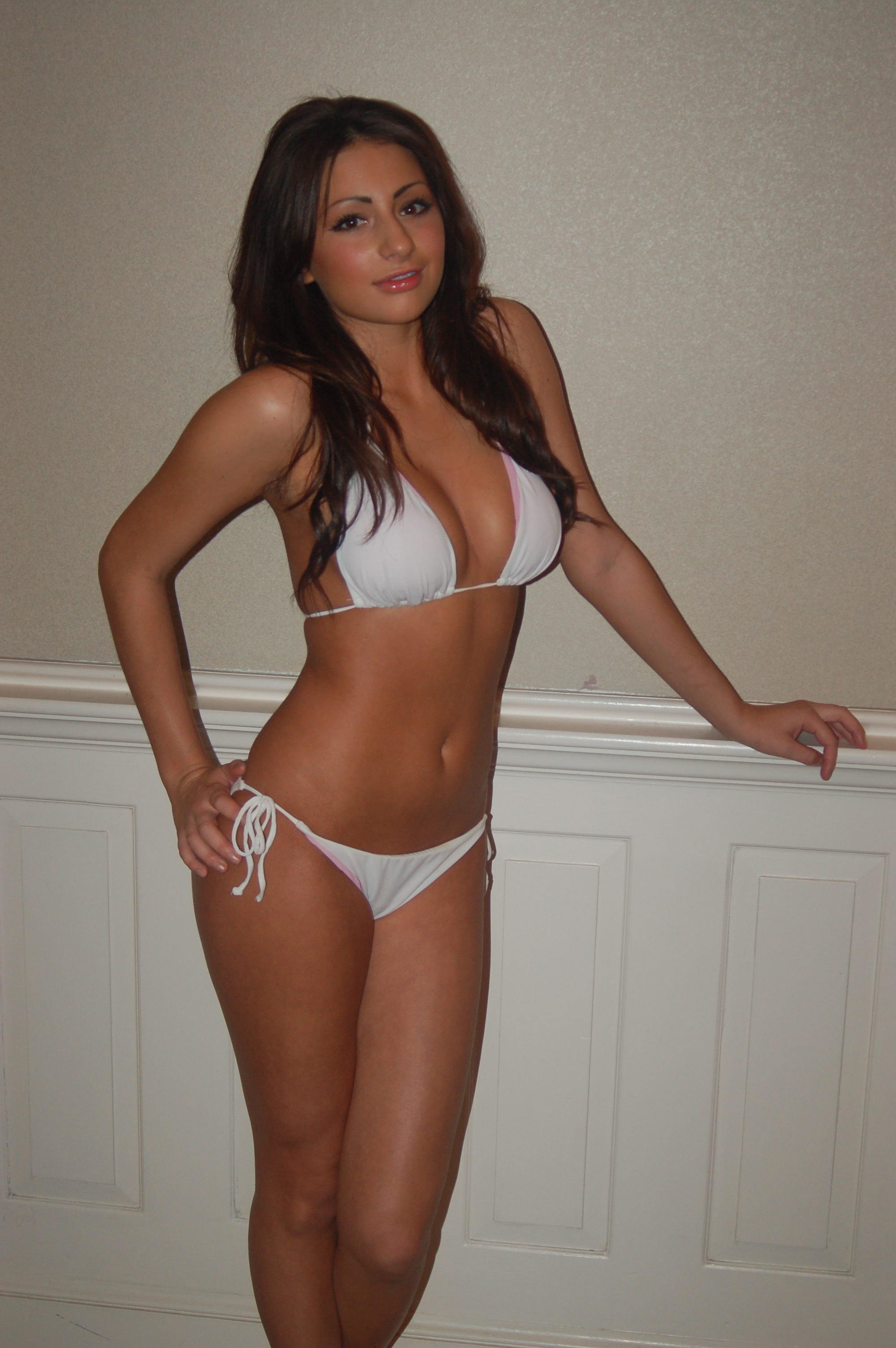 Woman wearing a white bikini for the Bridges Bikini Contest, August 2008.